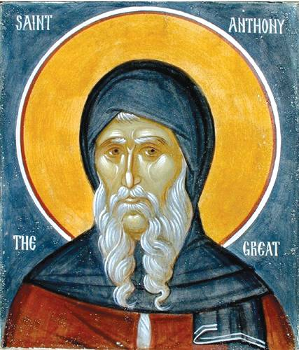 St. (ortodox icon)